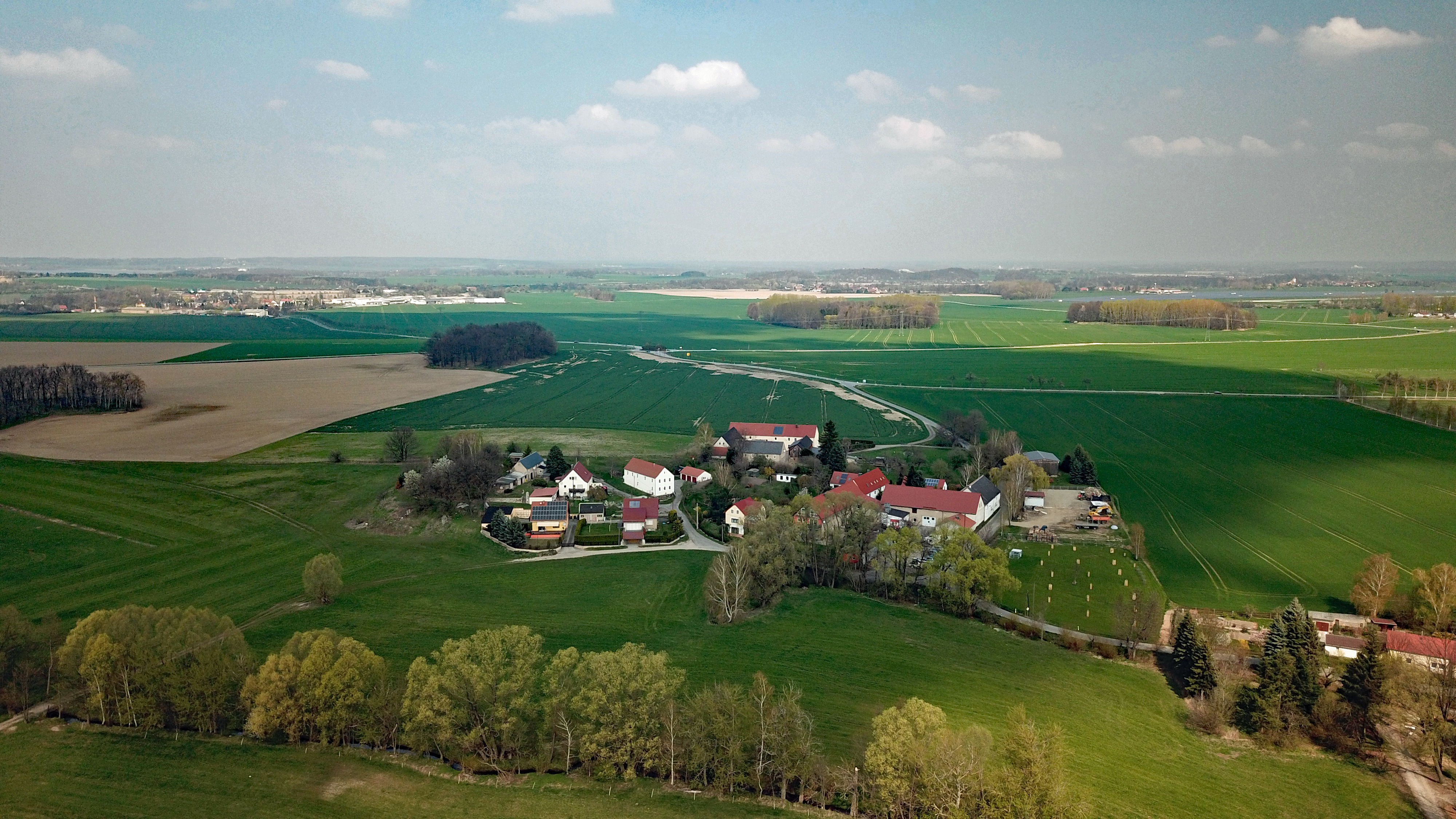 Zieschütz (Kubschütz, Saxony, Germany) Hornjoserbsce: Powětrowy wobraz Cyžec Dieses Foto wurde mit einem Quadcopter innerhalb der RMZ des Flugplatzes EDAB aufgenommen. Der Flugleiter wurde am Aufnahmetag telephonisch über Ort und Zeit informiert und hat zugestimmt. Der Flug erfolgte auf Grundlage der Allgemeinverfügung der Landesdirektion Sachsen zur Erteilung der Betriebserlaubnis für unbemannte Luftfahrtsysteme und Flugmodelle gemäß § 21a LuftVO und Zulassung von Ausnahmen von Betriebsverboten gemäß § 21b LuftVO für den Freistaat Sachsen.